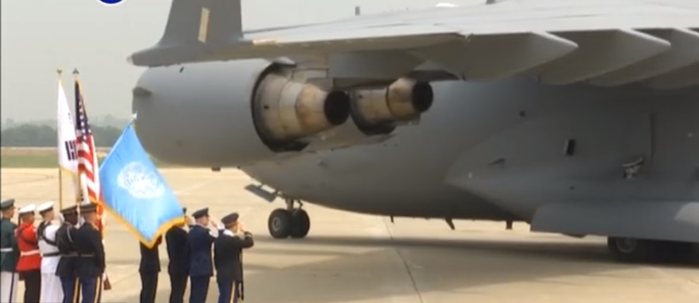 After Trump-Kim Summit, North Korea searched and returned the US War Remains of Korean War 1950-1953.